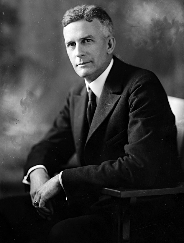 Sidney C. Roach, US Representative from Missouri